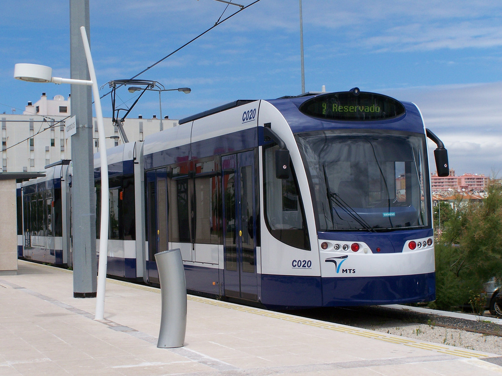 Siemens Combino Plus tram (#C020) in Corroios station, Almada, Portugal. Built 2007, Metro Transportes do Sul (MTS) operator.